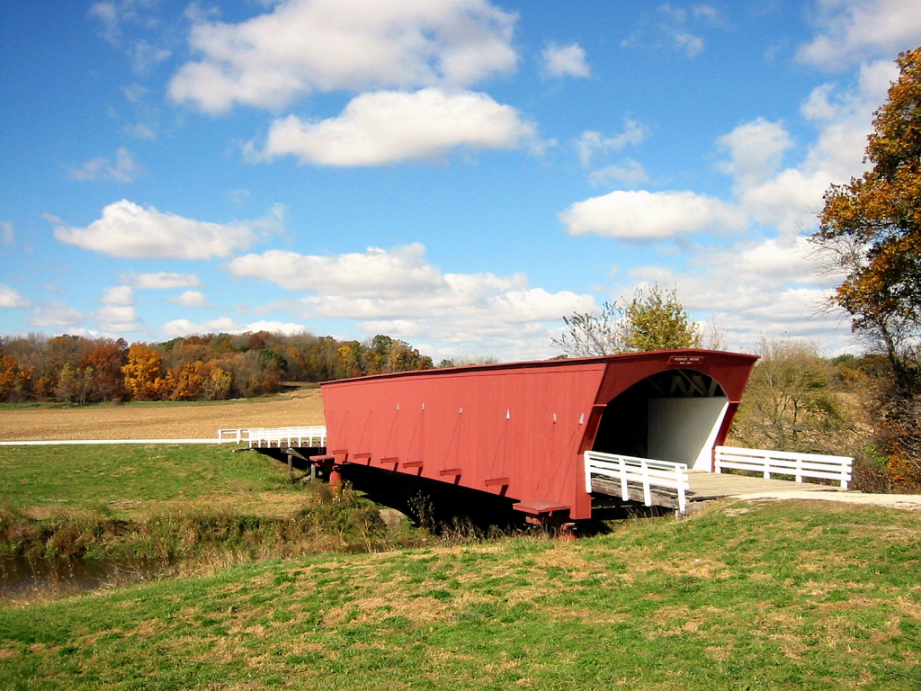 The image represents the Holliwell Bridge, Madison County, Iowa, and was taken on October 16, 2001, by Lance Larsen. This bridge crosses the North River about 40 miles southwest of Des Moines, Iowa.